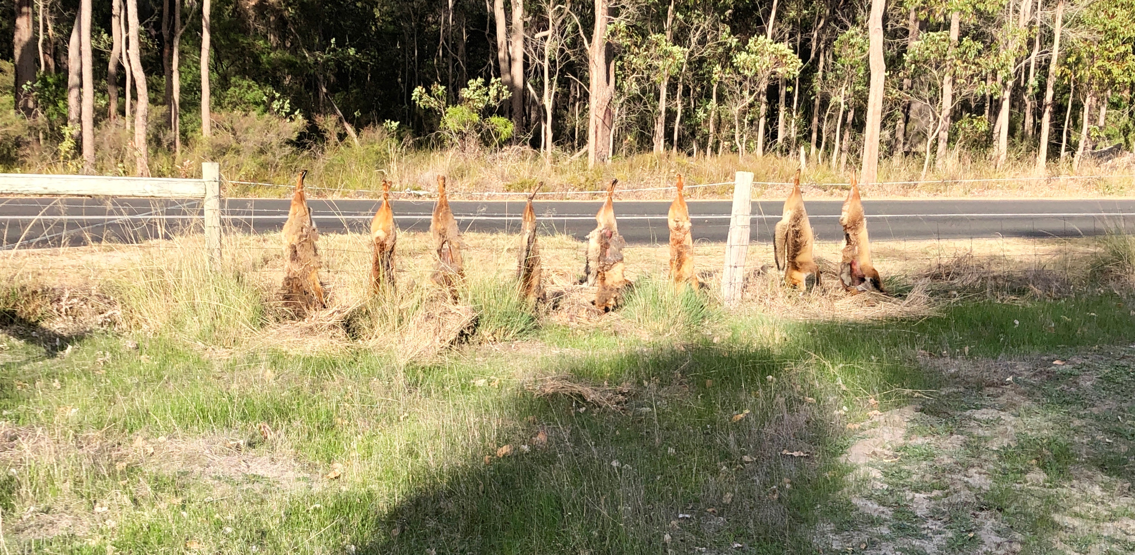 Foxes are not welcome in Carbunup Looks like the farmers have been out hunting.